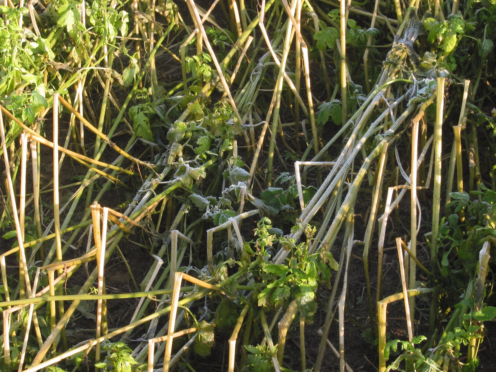 Sinapis alba in winter